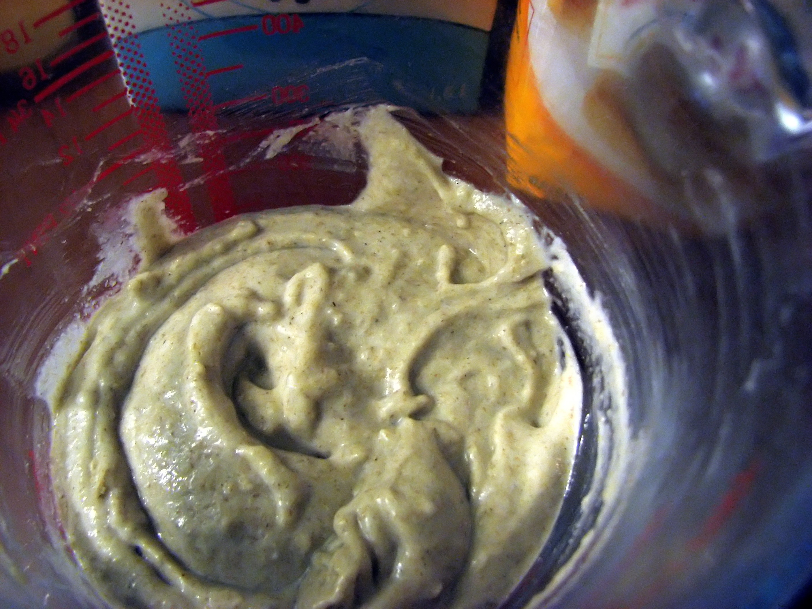 A simple sour dough starter initially prepared to make some Finnish rye bread. Made of 1.5 dl each milk and rye flour. Left in a warm place for 2 to 5 days. This dough went on to be part of a dough to make a limppu and reikaleipä.